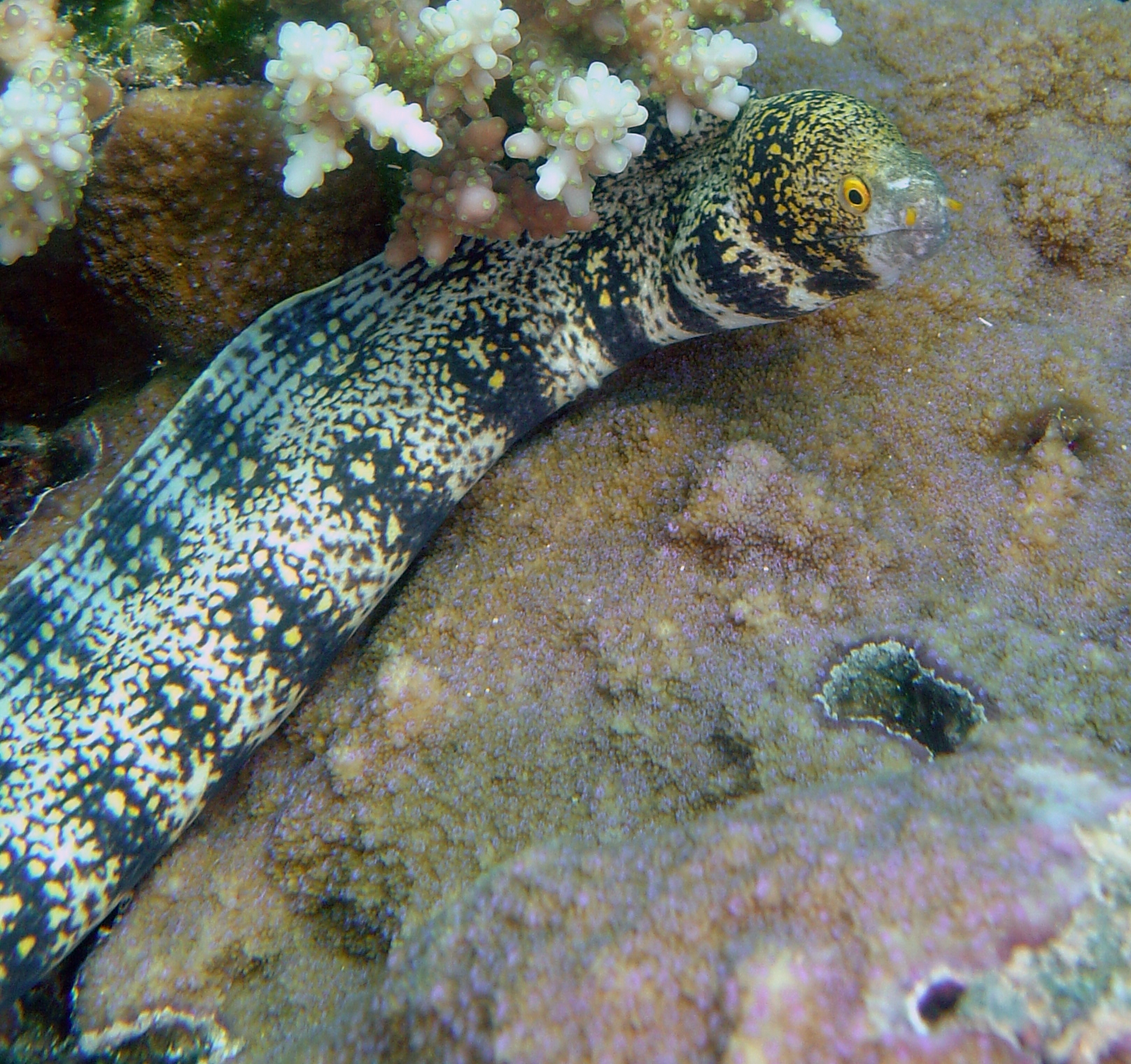 Snowflake moray (Echidna nebulosa) Image ID: reef0945, NOAA's Coral Kingdom Collection Location: Guam, Mariana Islands